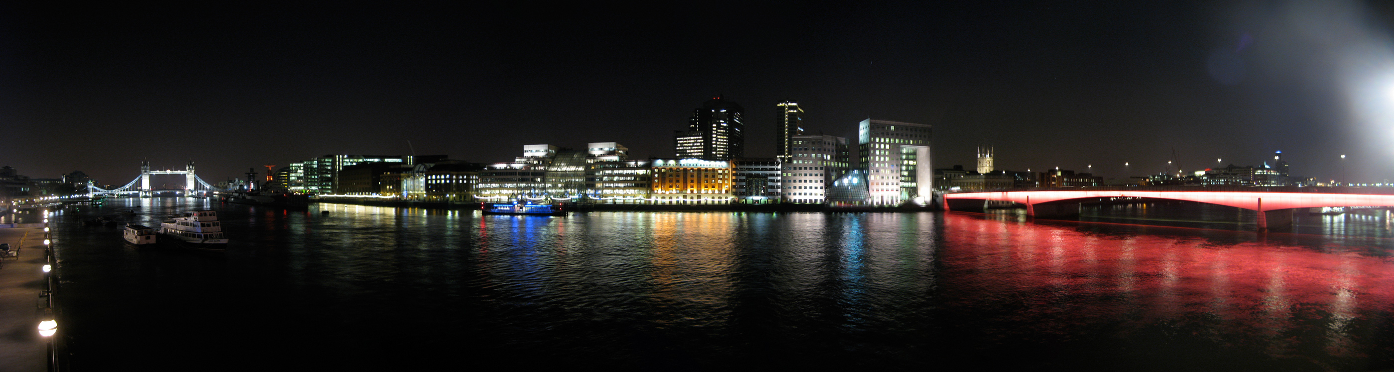 Panorama River Thames (HQ)London Bridge